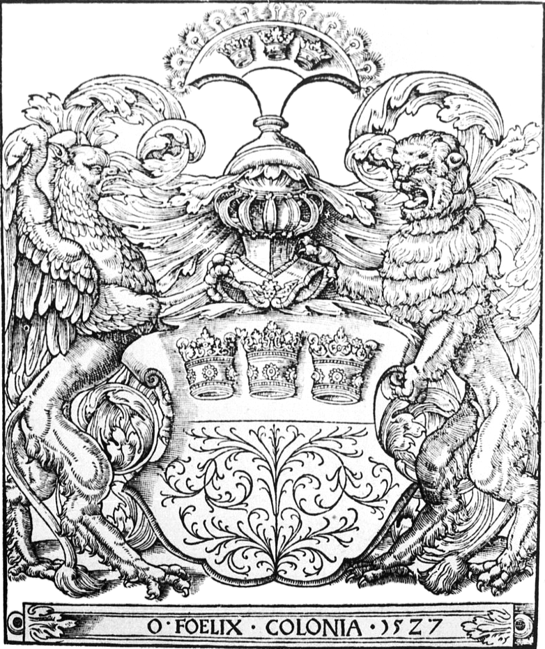 Coat of arms of the city of Cologne